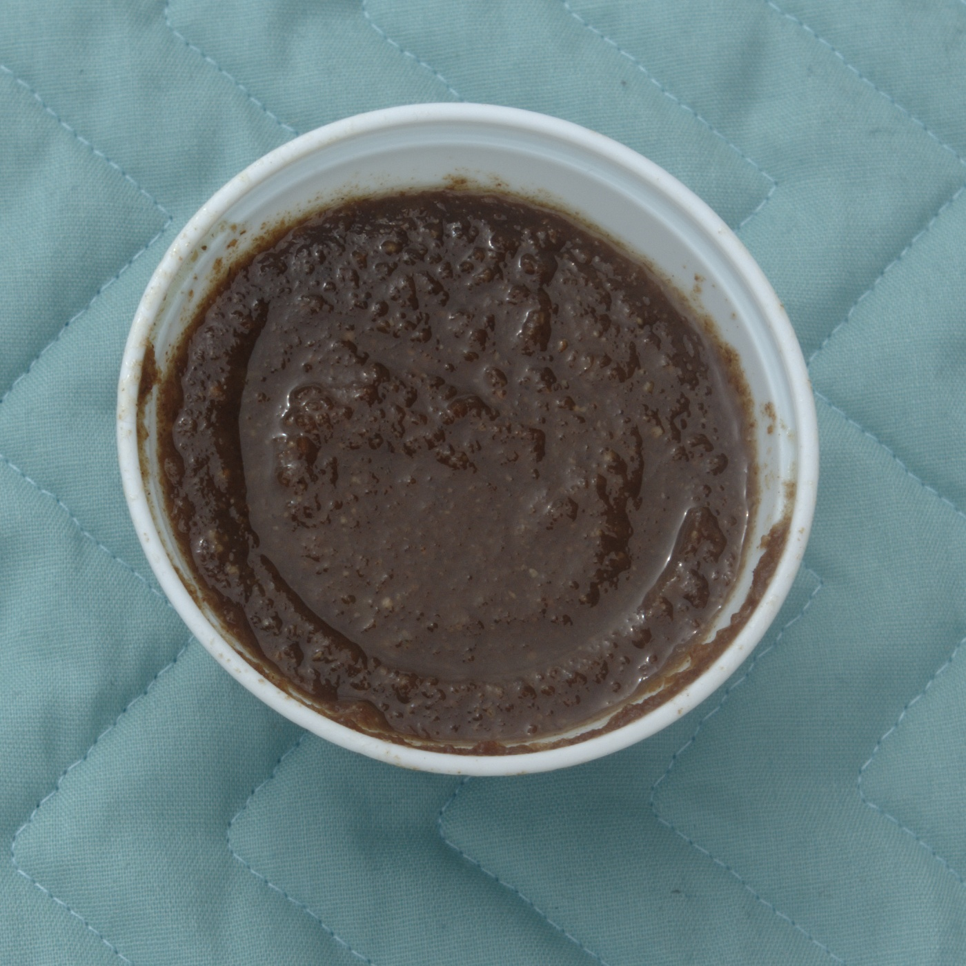 Small serving of panocha (traditional Lenten pudding made from sprouted-wheat flour and brown sugar) from Chimayó, New Mexico. On a cloth placemat.